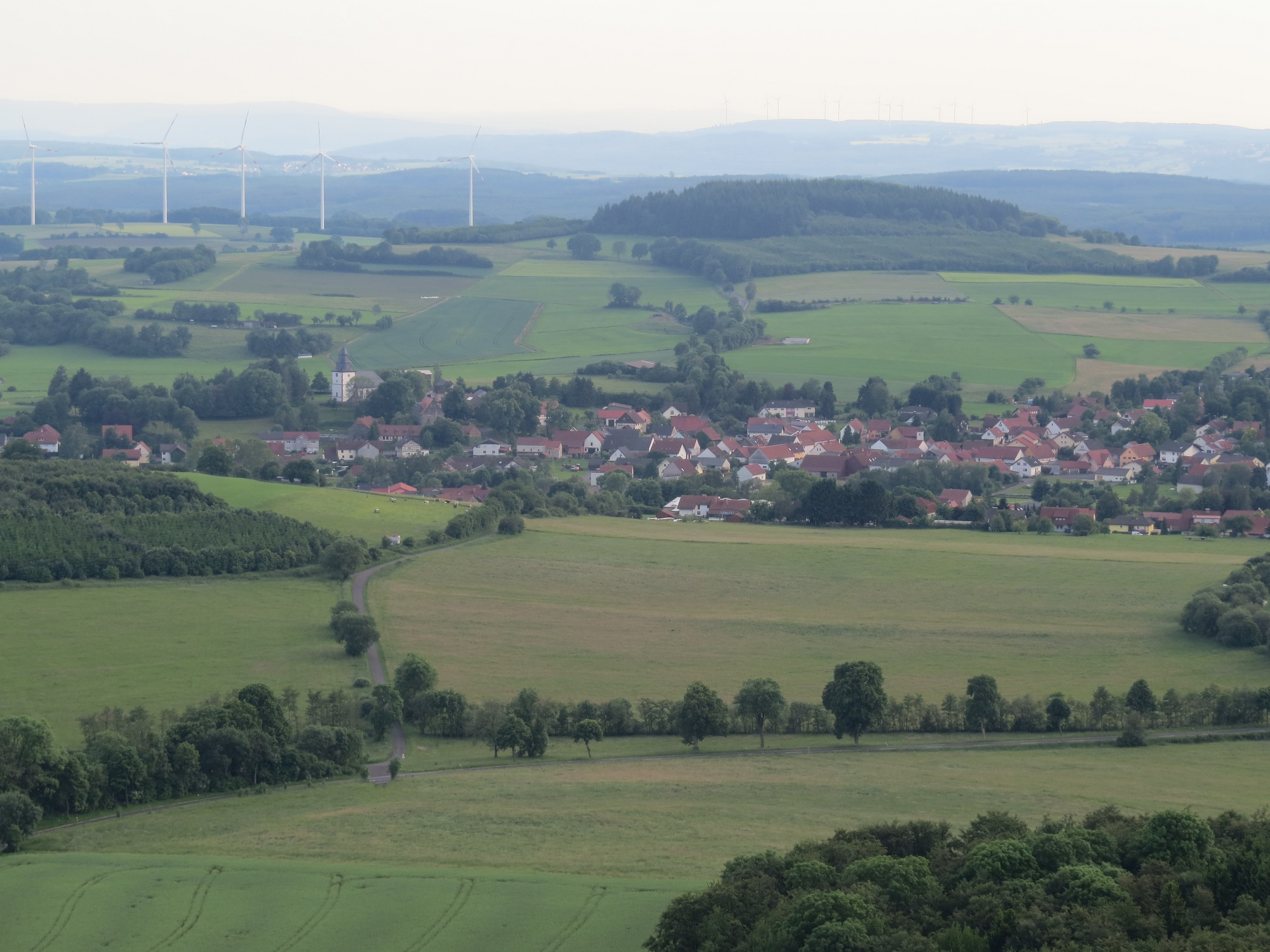 View from Turbine No. 8 in the "Windwald Blaues Eck" wind farm near Freiensteinau (Hesse, Germany) at the village itself.